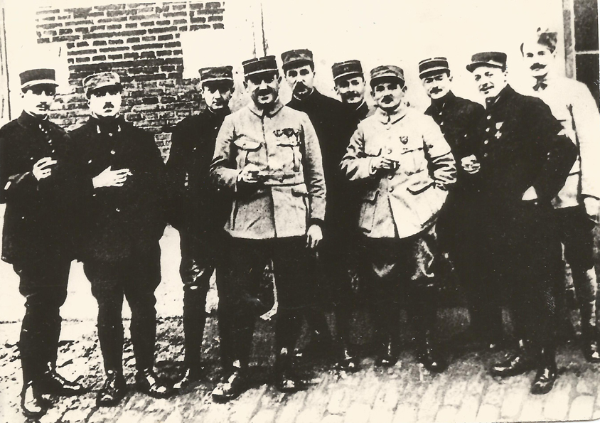 Vedrines2